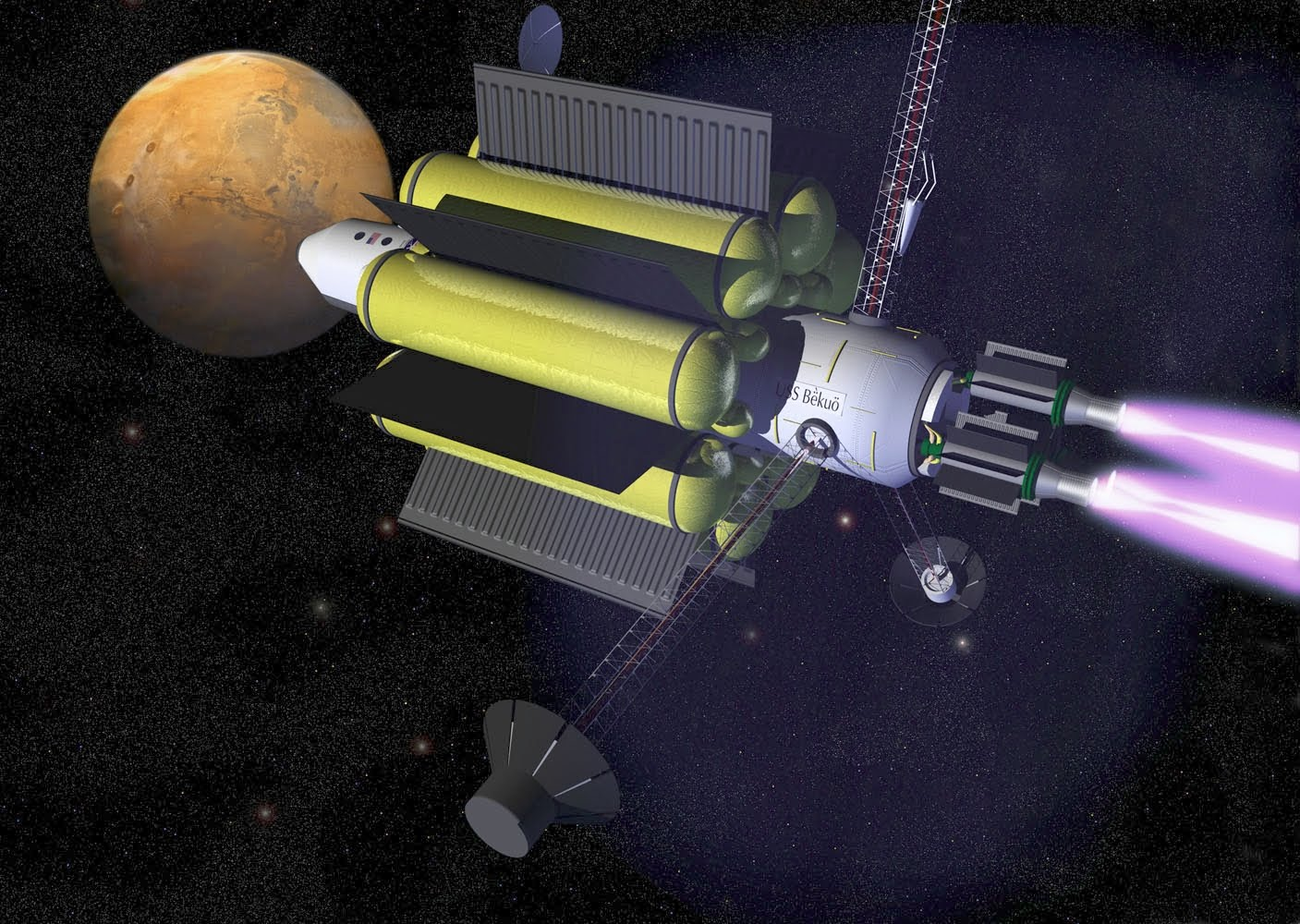 Artist's rendition of a future spacecraft that uses a VASIMR engine.